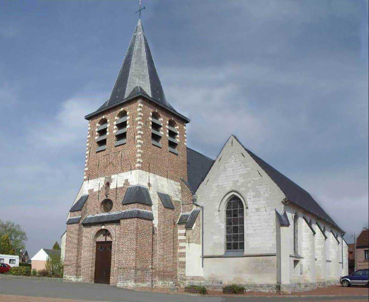 Église St-Quentin of Ennevelin (59, Nord)